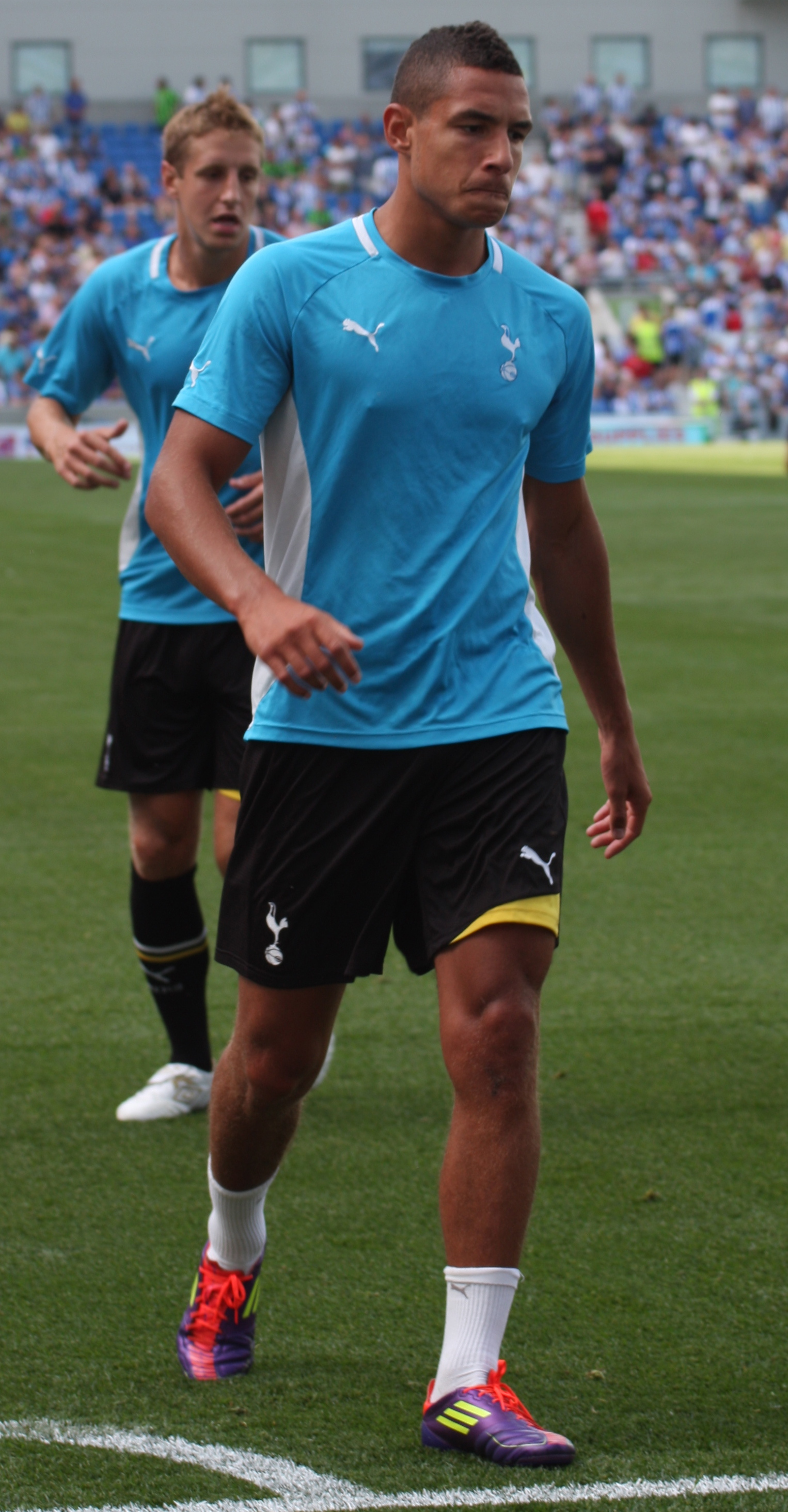 Jake Livermore- Brighton v Spurs Amex Opening 30/7/11